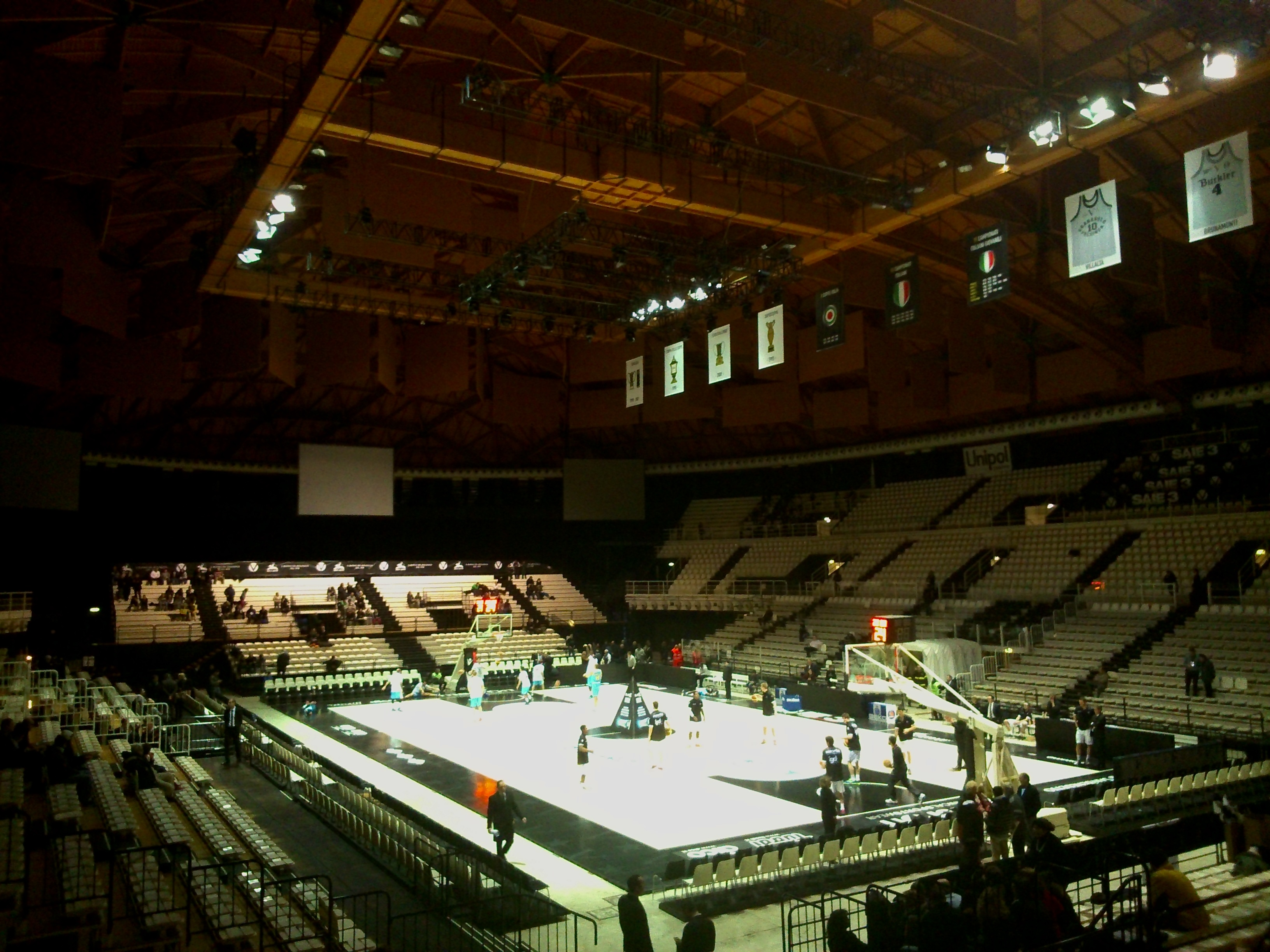 Unipol Arena in January, 2014